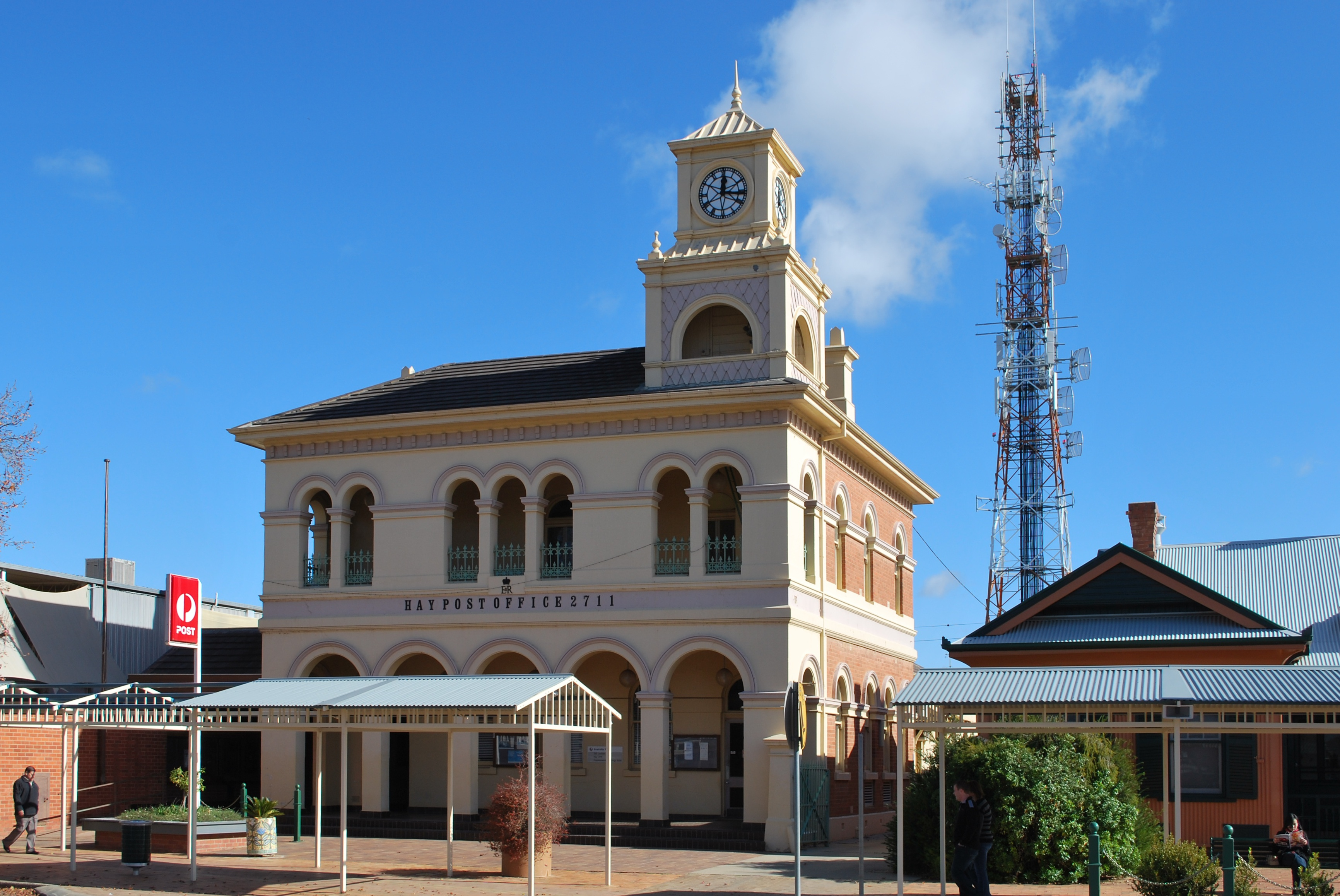 Post office at Hay, New South Wales